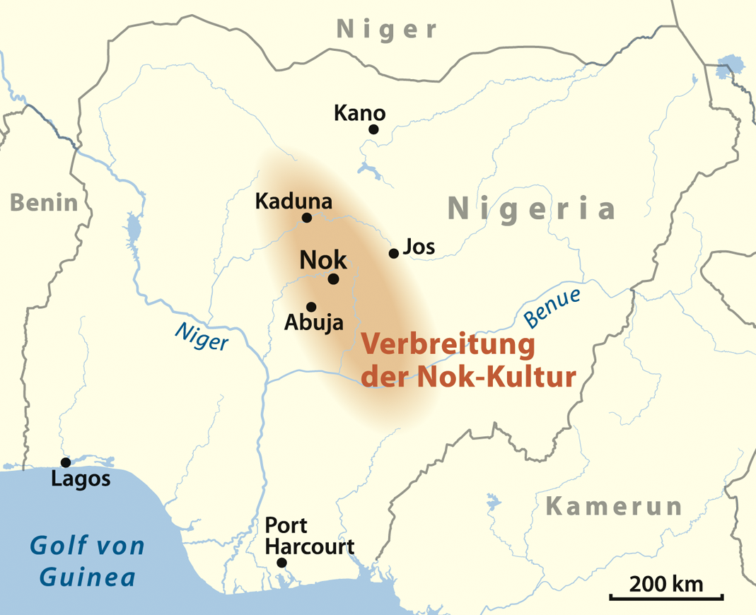 Area of the Nok culture, German version